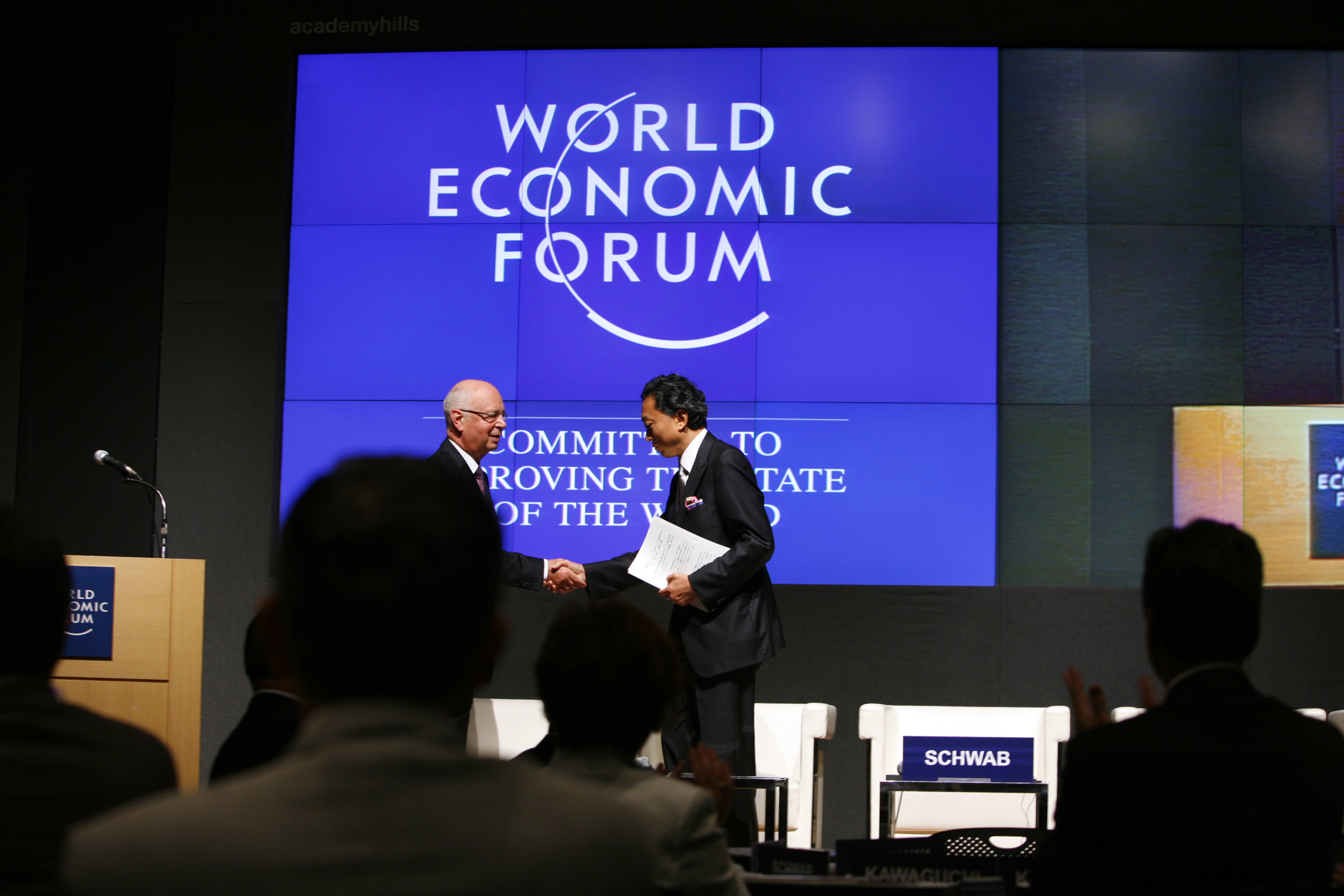 Yukio Hatoyama, Member of the House of Representatives, met Klaus Schwab, Executive Chairman of the World Economic Forum, at the World Economic Forum Japan Meeting 2009 in Shinjuku Ward, Tōkyō Metropolis, on September 4, 2009.